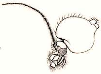 Thorax with head of Dixa nebulosa